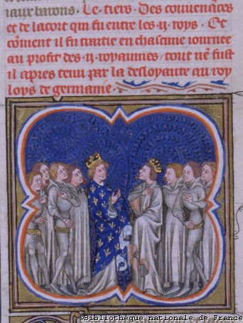 Grandes Chroniques de France, Paris, BnF, département des Manuscrits